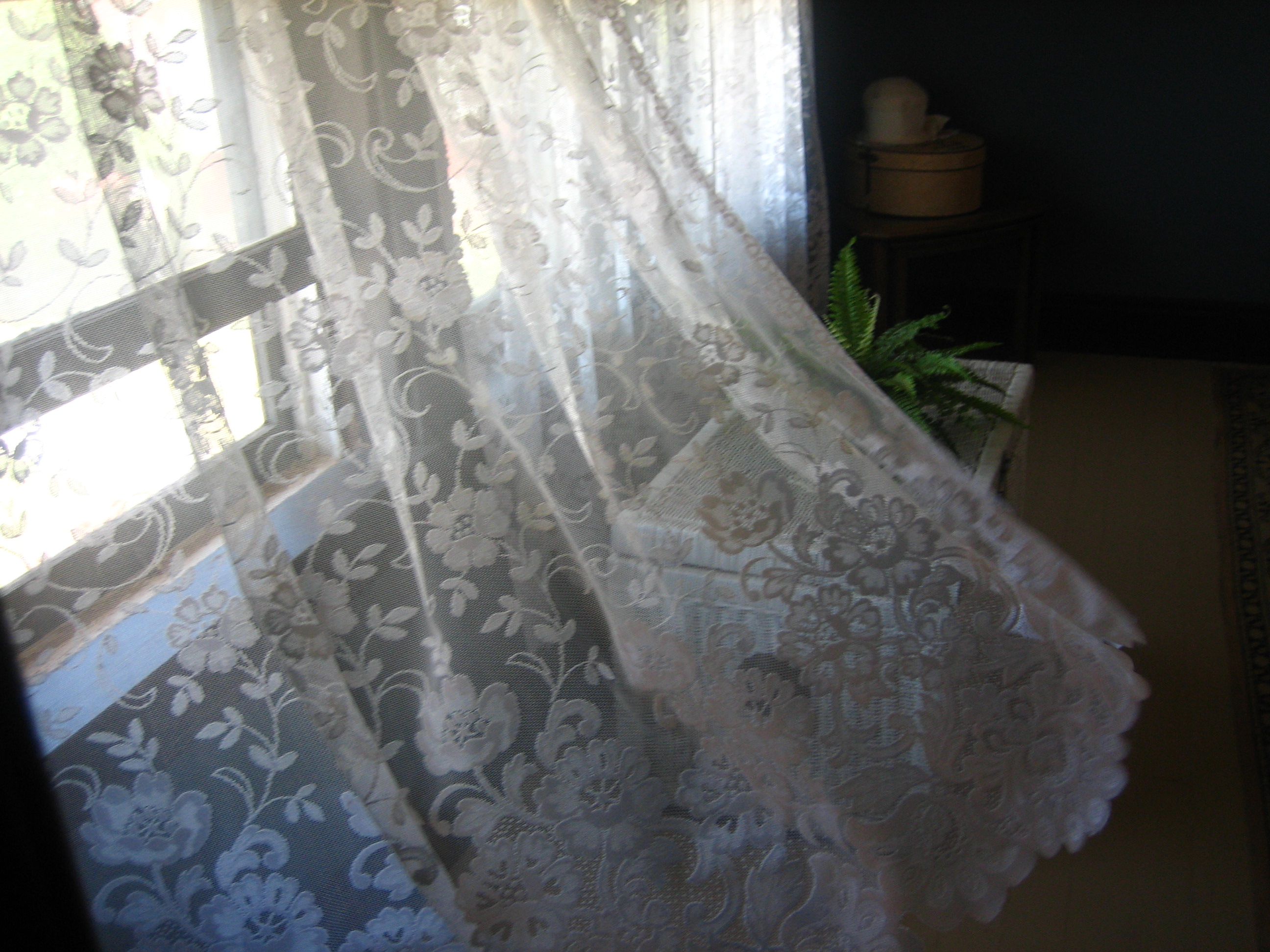 A breeze in the curtains at Muleshoe Heritage Center